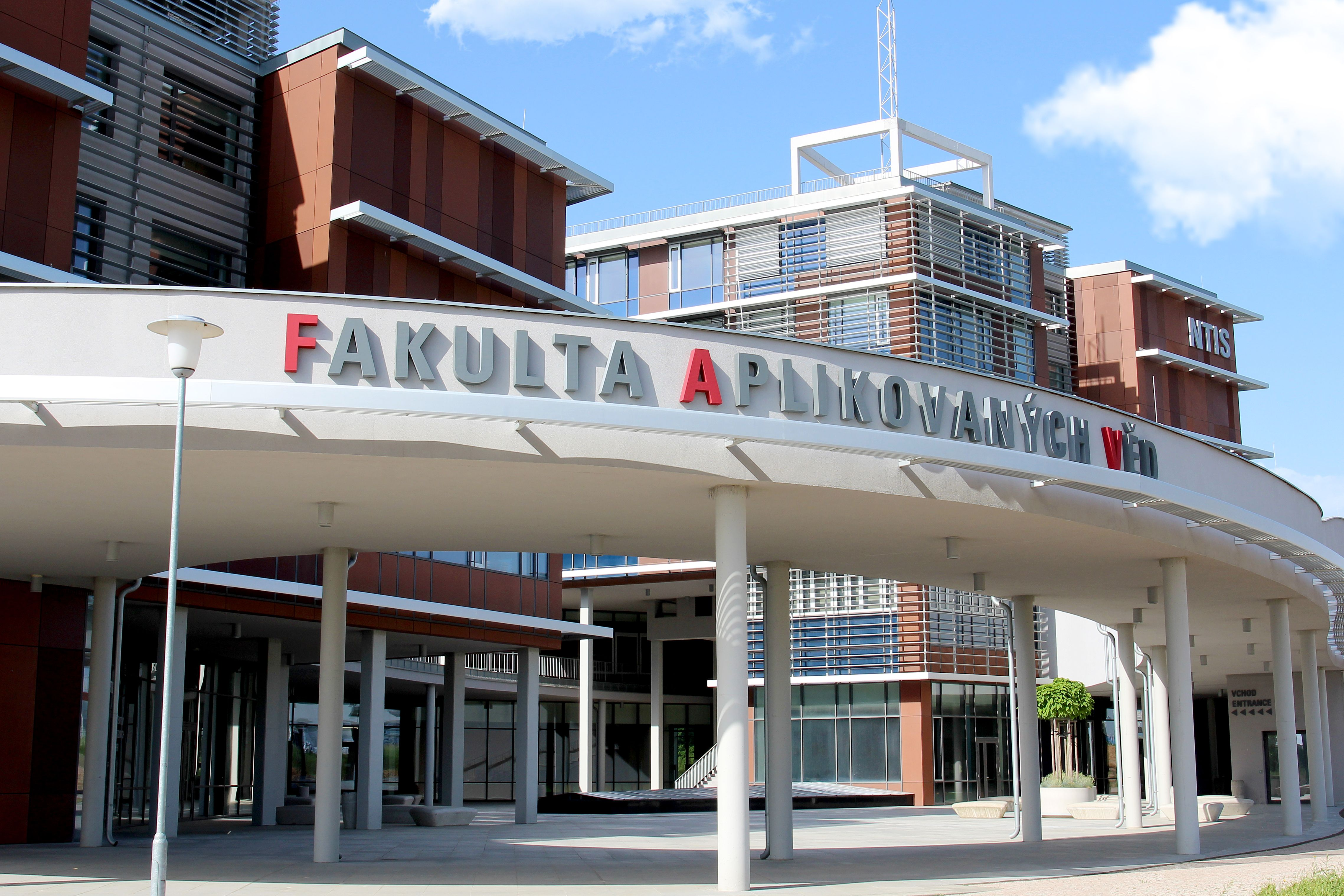 Building of Faculty of Applied Sciences - University of West Bohemia, Pilsen, Czech republic